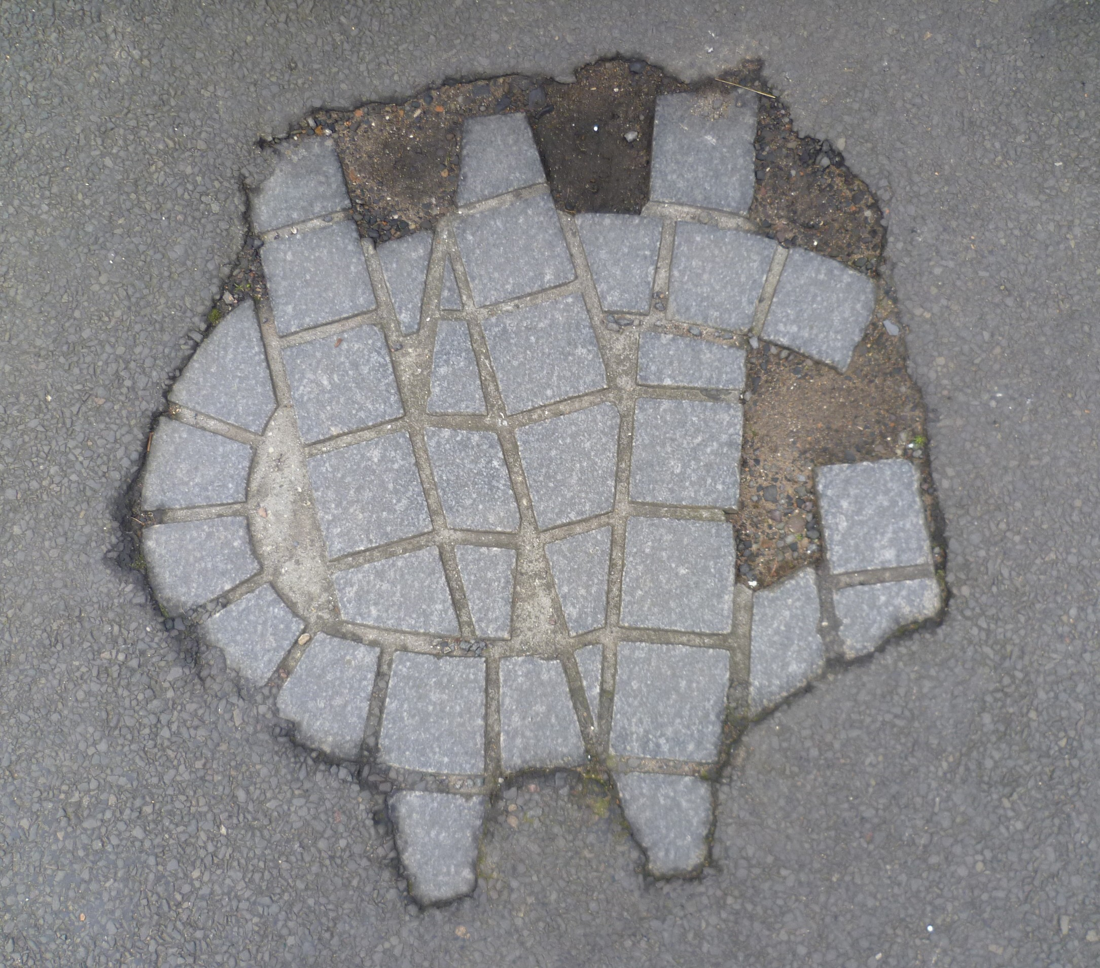 Site of George Wishart's execution, The Scores, St. Andrews in Fife, Scotland